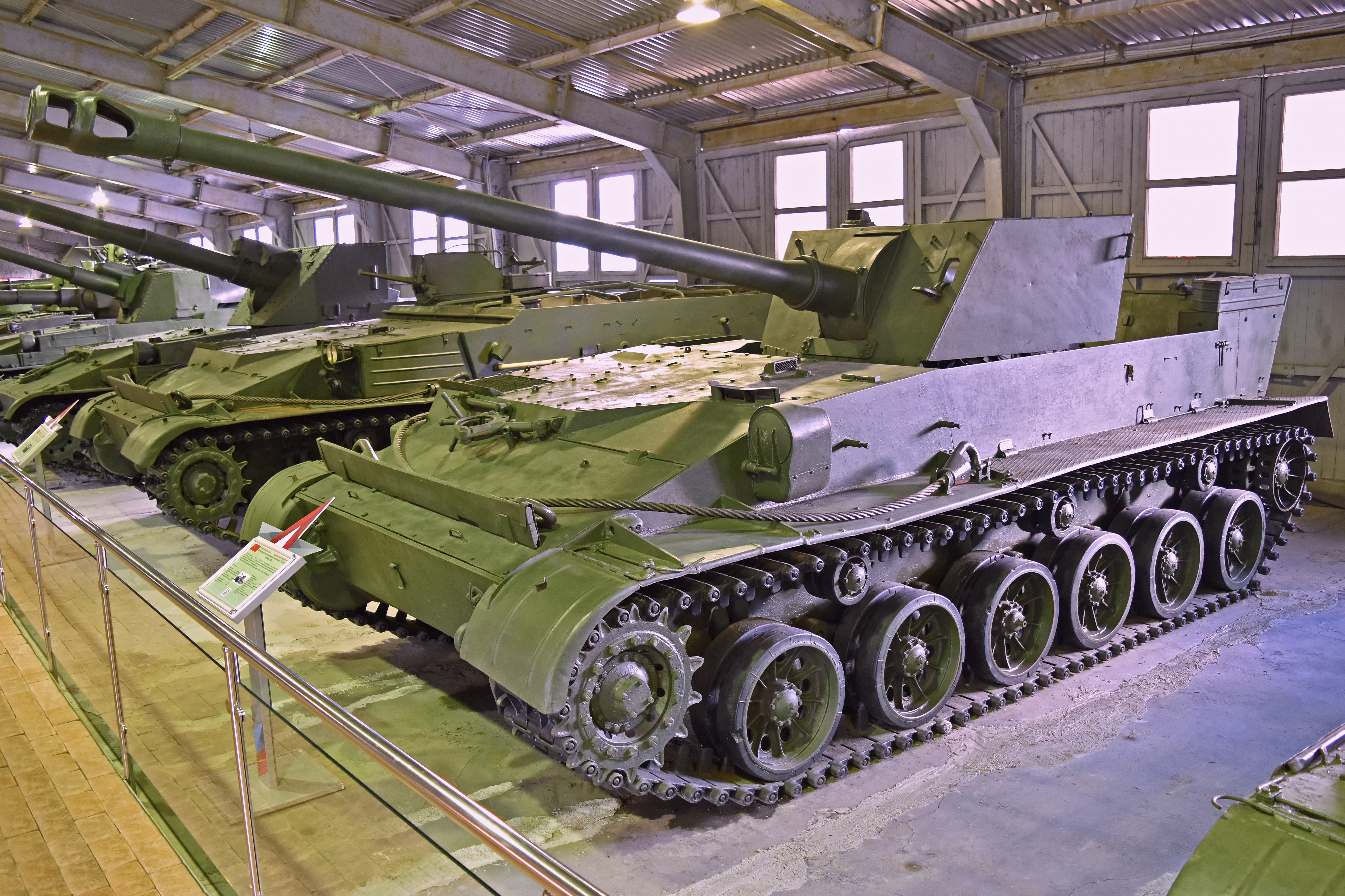 Designer:- L.Gorlitsky. Manufacturer:- Uralmash Zavod (UZTM). Obeikt 105 (Object 105) was a prototype Self-propelled gun built in 1949. It had a 100mm gun mounted on a newly designed chassis. Designated as the SU-100P, it did not enter production. On display in what is best known as Hall1 of the Kubinka Tank Museum, although its official title is now Pavilion 1 in Area 2 of the Park Patriot museum. Kubinka, Moscow Oblast, Russia. 24th August 2017.